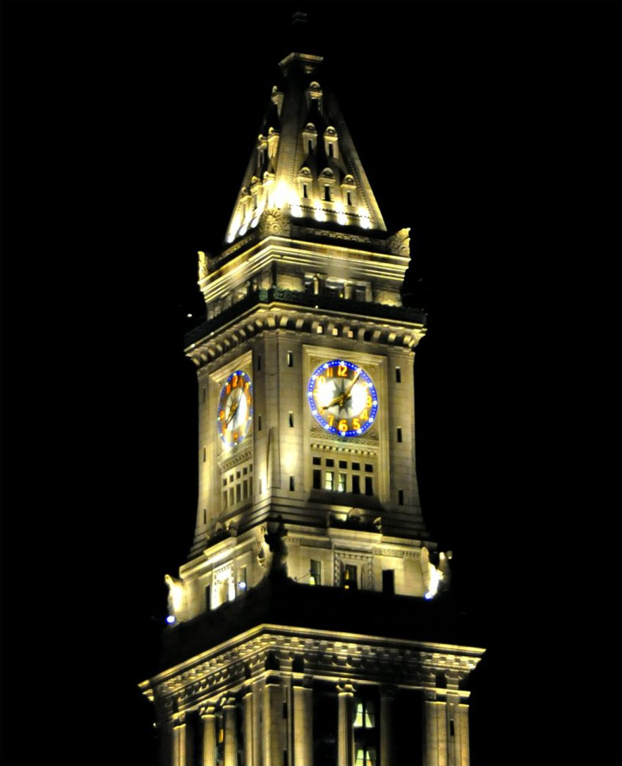 The Custom House Tower is a skyscraper in McKinley Square, in the Financial District neighborhood of Boston, Massachusetts, in the United States. Construction began in the mid 19th century; the tower was added in the 1910s. Standing at 496 feet (151 m) tall, the tower is currently Boston's 17th-tallest building. The site was purchased on September 13, 1837. Construction of a custom house was authorized by U.S. President Andrew Jackson. When it was completed in 1849, it cost about $1,076,000, in contemporary U.S. currency, including the site, foundations, etc. Ammi Burnham Young entered an 1837 competition to design the Boston Custom House, and won with his neoclassical design. This building was a cruciform (cross-shaped) Greek Revival structure, combining a Greek Doric portico with a Roman dome, resembled a four-faced Greek temple topped with a dome. It had 36 fluted Doric columns, each carved from a single piece of granite from Quincy, Massachusetts; each weighed 42 tons (37 metric tons) and cost about $5,200. Only half these actually support the structure; the others are free-standing. They are 5 feet (1.5 m) and 4 inches (162 cm) in diameter and 32 feet (9.7 m) high. Inside, the rotunda was capped with a skylight dome. The entire structure sits on filled land and is supported by 3,000 wooden piles driven through fill to bedrock. Before land reclamation was done in the mid 1800s, Boston's waterfront extended right to this building. Ships moored at Long Wharf almost touched the eastern face of the building. The Custom House was built at the end of the City docks, to facilitate inspection and registration of cargo. The federal government used the building to collect maritime duties in the age of Boston clipper ships. The building itself is now a hotel. This clock tower stands out in historic Boston, Massachusetts.